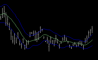 This image was created by me. The data shown is random numbers generated by a program I wrote, then massaged manually a bit. The image itself is a screenshot from my charting program, captured with xwd and imagemagick. The bands are a 10-day Keltner channel, the blue bands are the channel, the green centre line is a 10-day simple moving average.